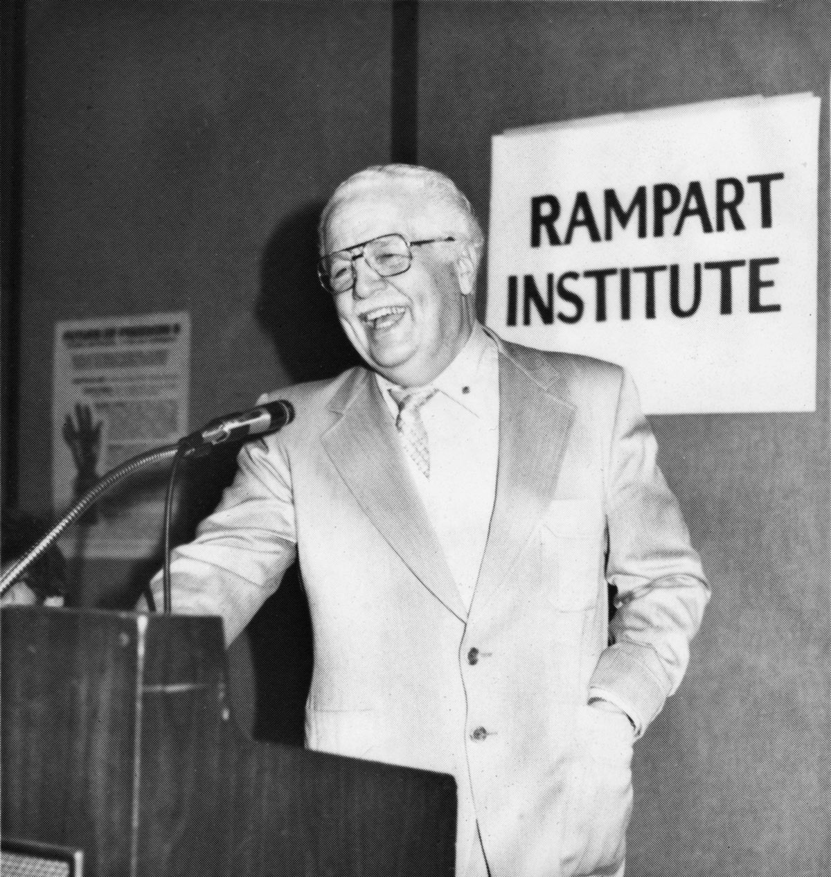 Robert Levre's photo by Lawrence Samuels